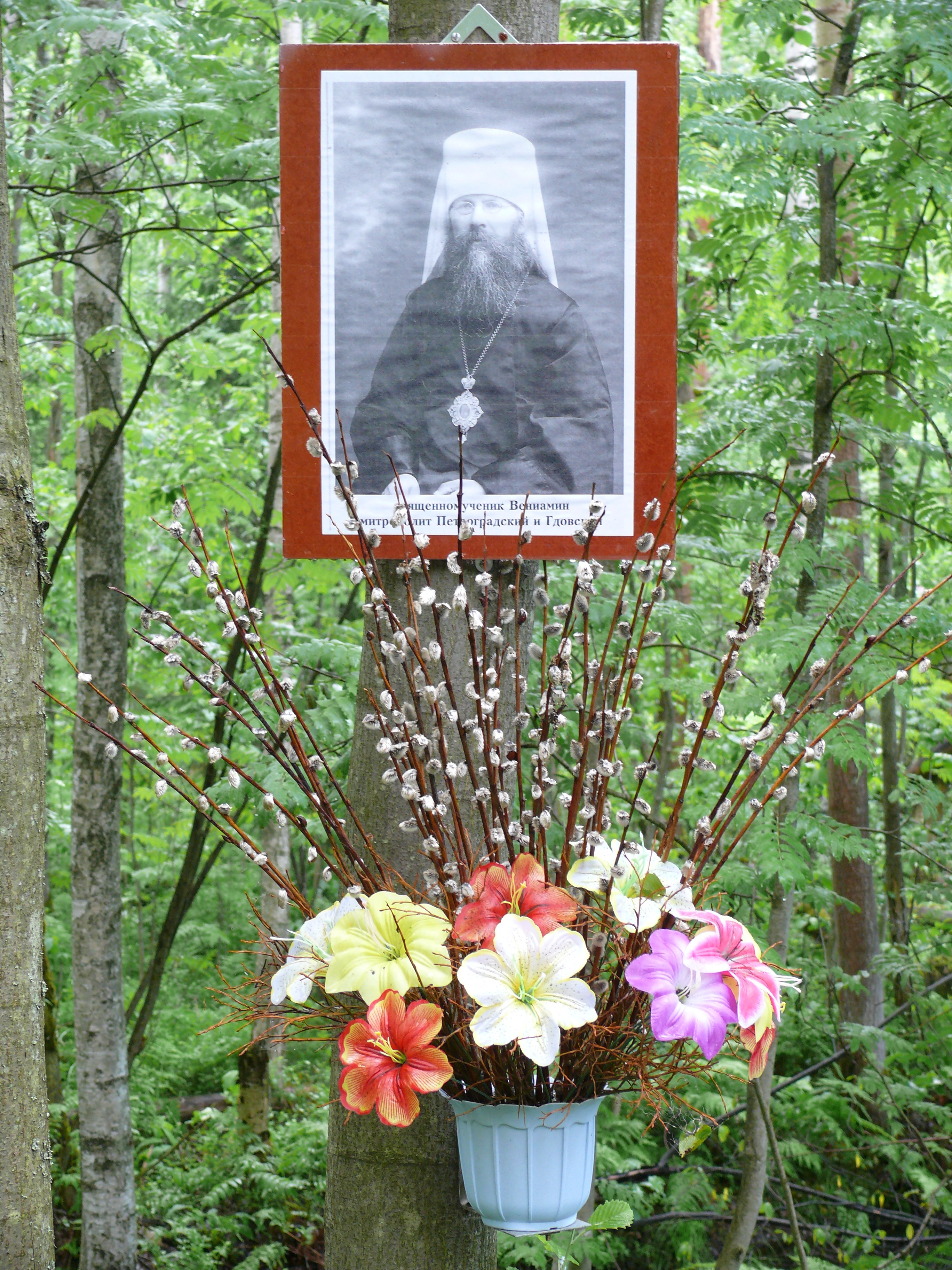 Photo of metropolitan Benjamin (Kazansky) on the place where he was shot by the Bolsheviks in 1921